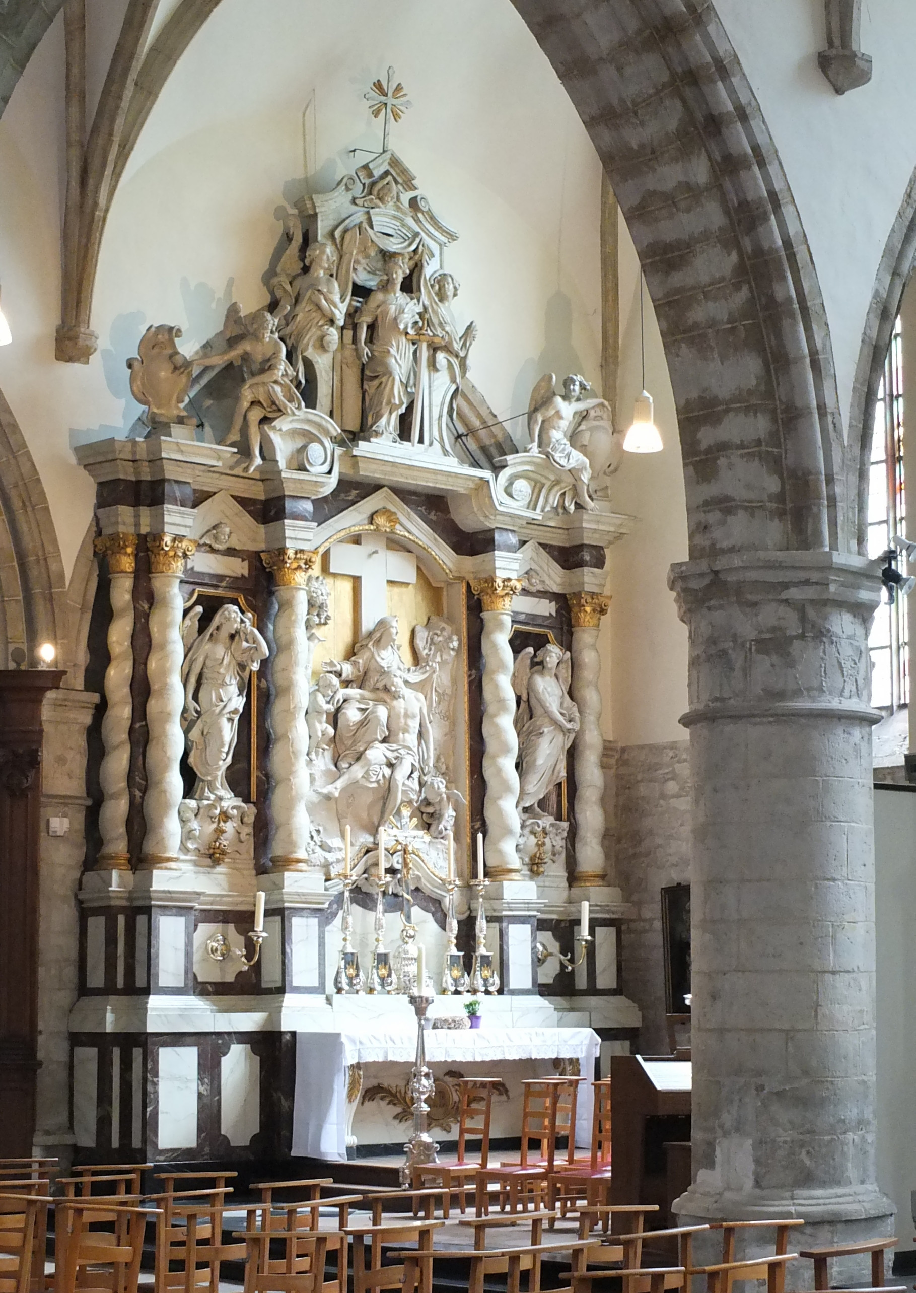 Our Lady's Church (Onze-Lieve-Vrouwekerk) in Dendermonde. Altar of Our Lady of Seven Sorrows and of Holy Barbara (1668).